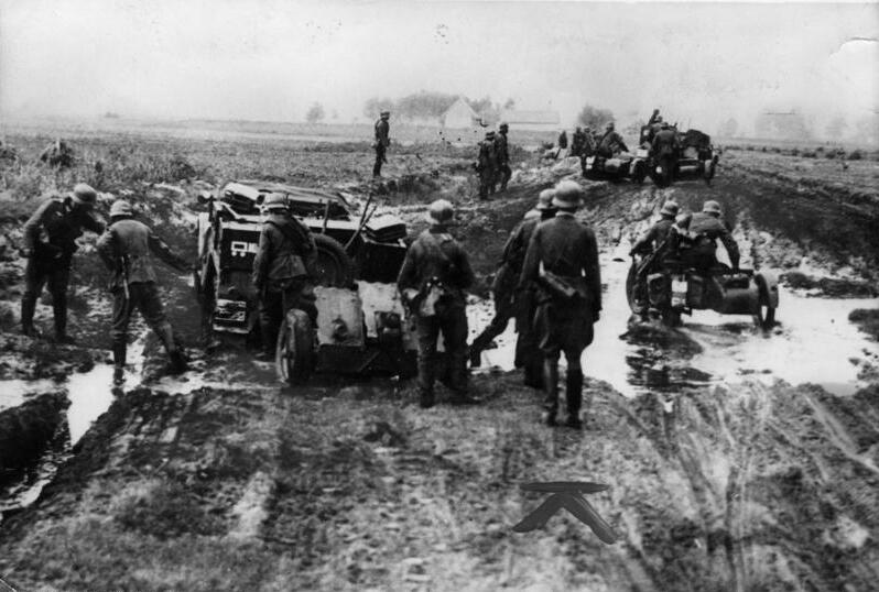 Car towing 7.5cm leIG-18 infantry gun